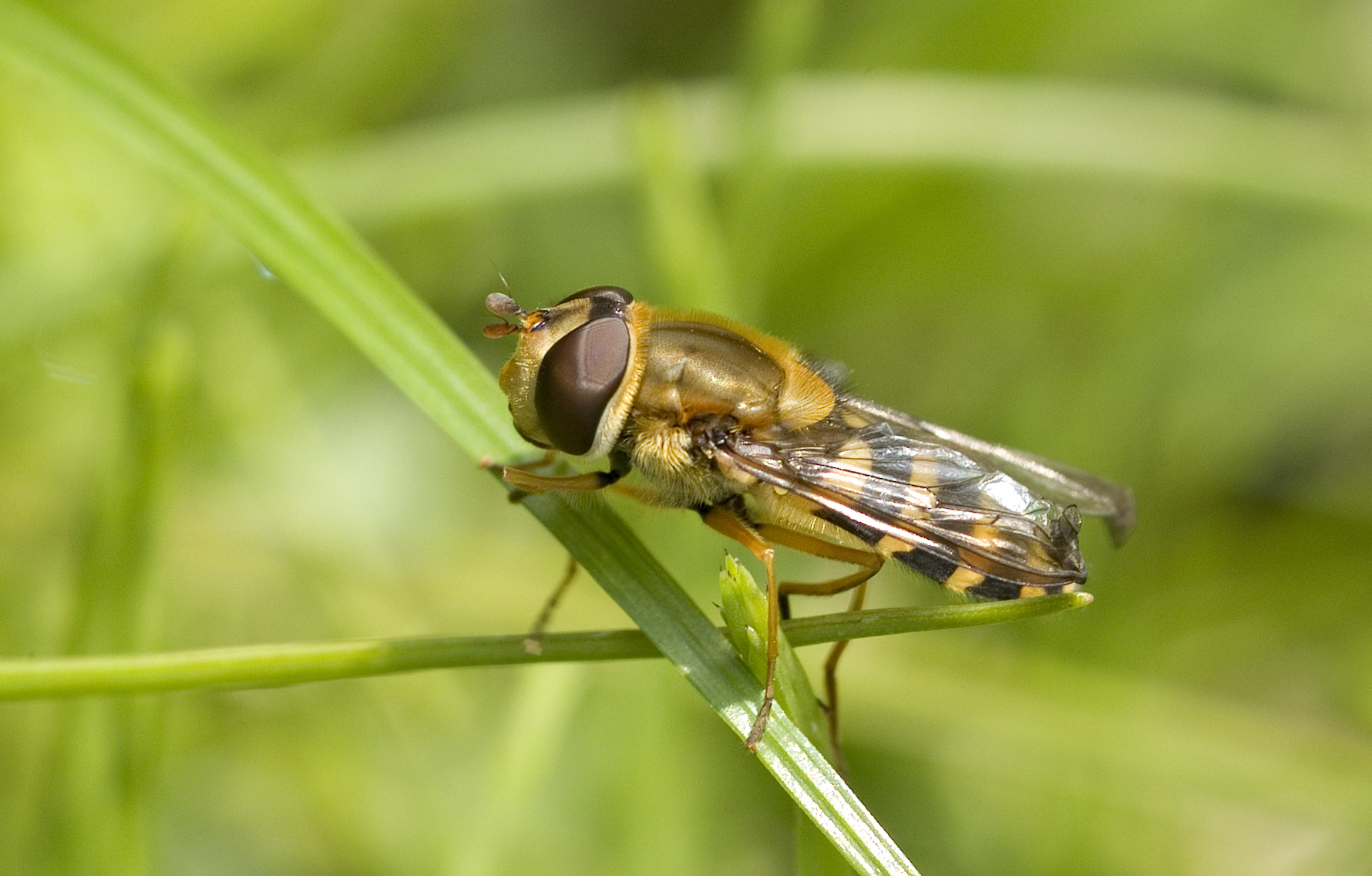 Syrphus_ribesii